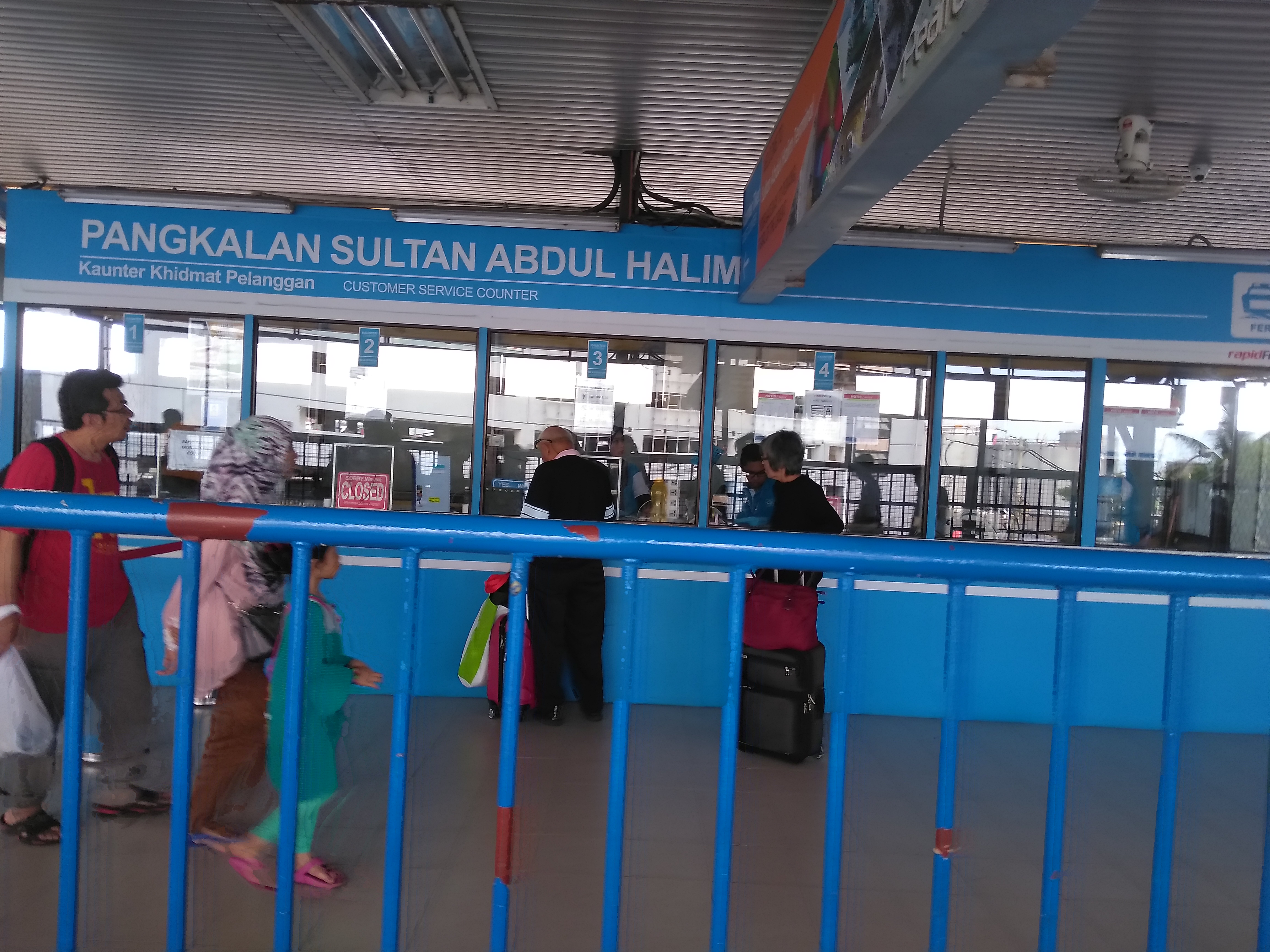 Sultan Abdul Halim Ferry Terminal Counter